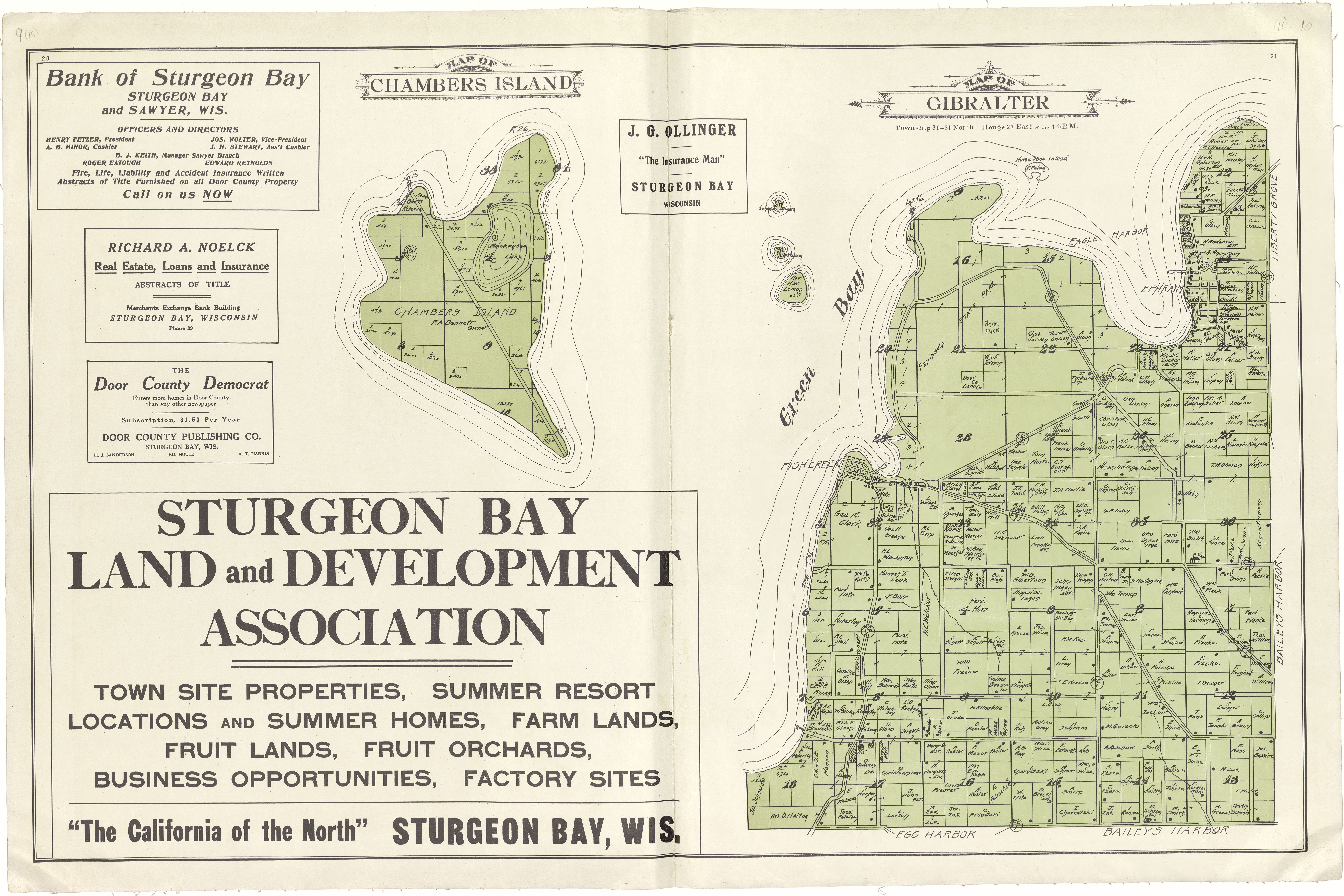 LeGear. Atlases of the United States, 6490 Includes index and advertisements. Available also through the Library of Congress Web site as a raster image. LC copy imperfect: Losses to p. 7-8. Vendor: John Carbonell Acquisitions control no. 2008-087